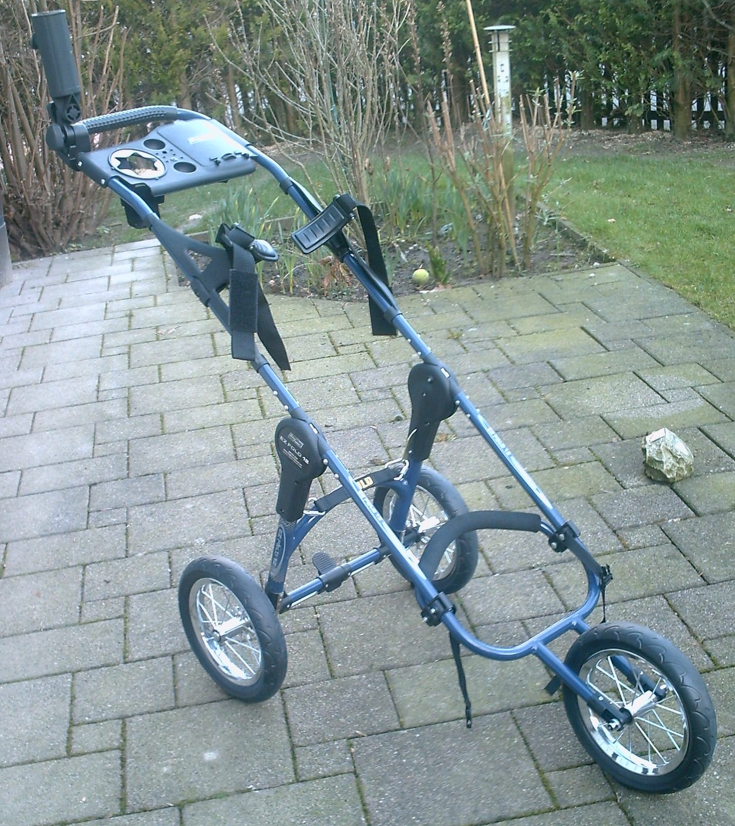 Golf trolley with 3 wheels and without engine (Pushtrolley)